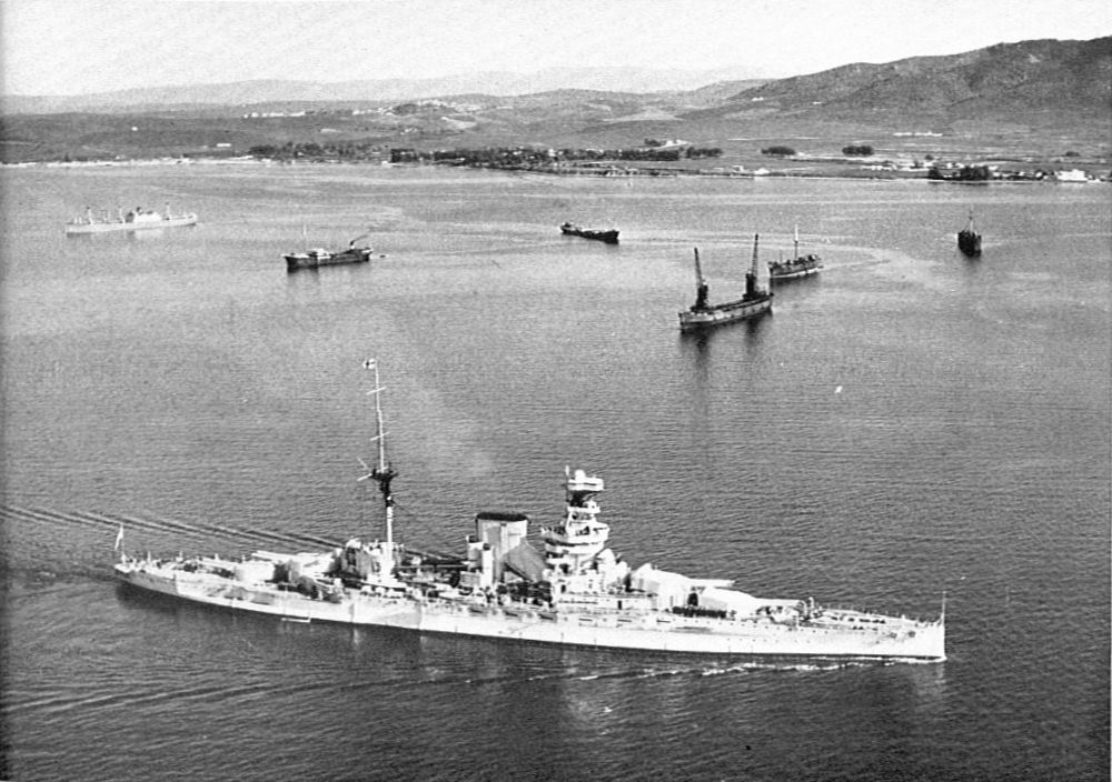 HMS Queen Elizabeth Photo: Charles E. Brown